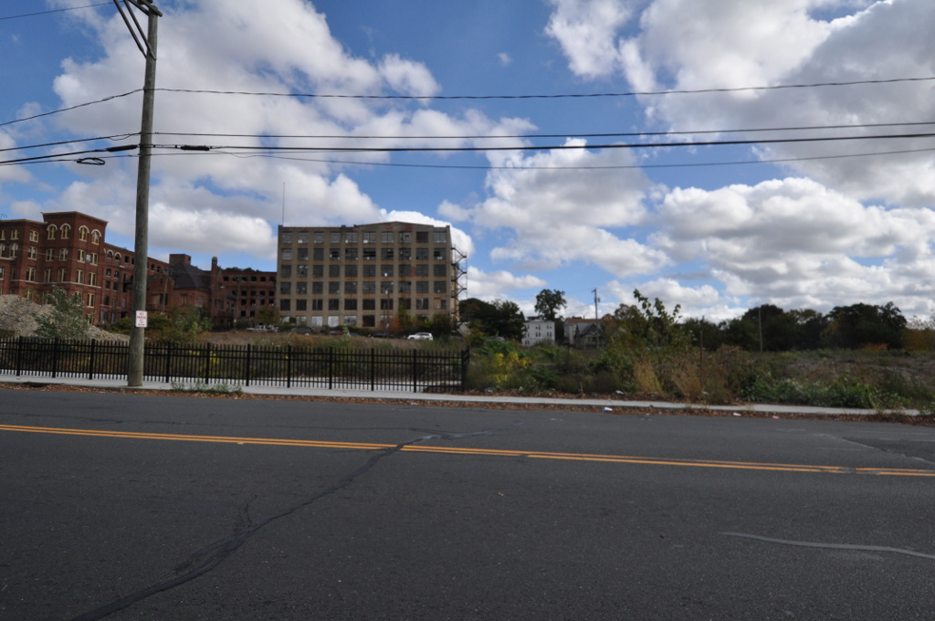 Empty field where the Matthews and Willard Factory stood, Waterbury, Connecticut.